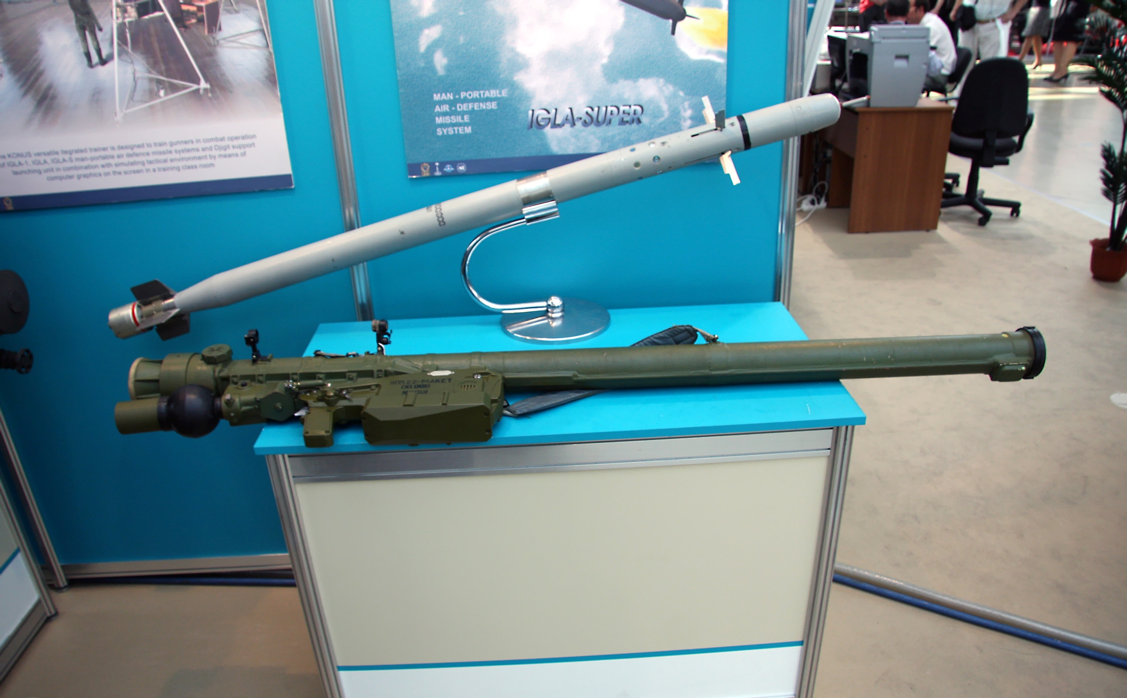 IGLA-S Strelets set for firing of missiles.